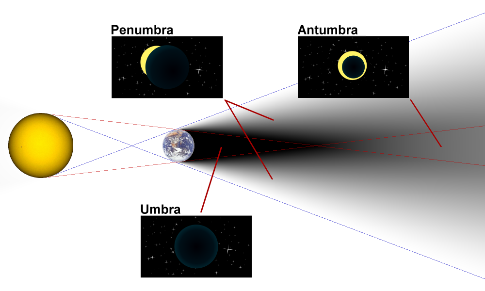 Diagram of umbra, penumbra and antumbra in a two-body system.